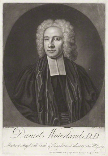 Portrait of Daniel Waterland (1683–1740), English theologian.